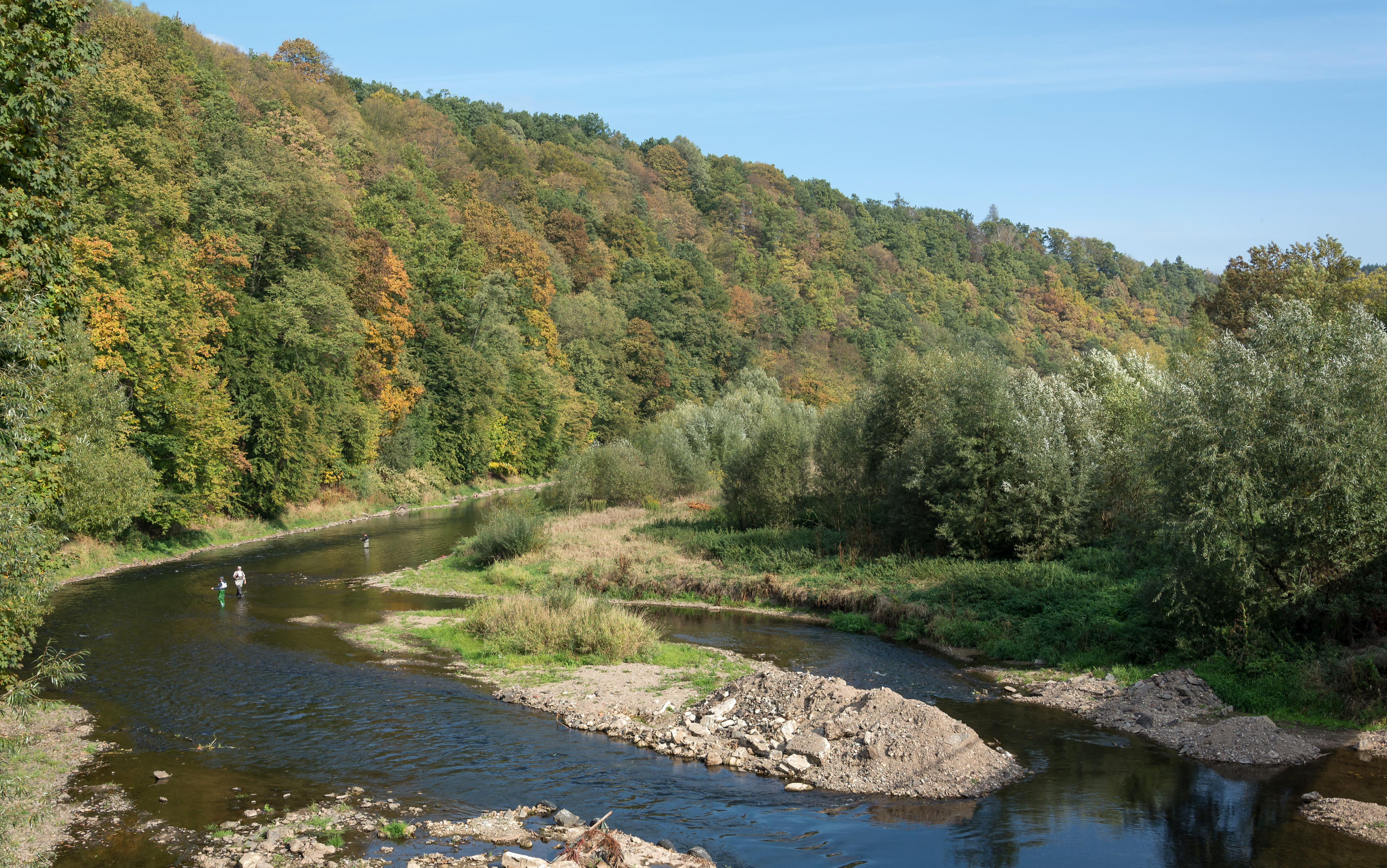 Nysa Kłodzka in Morzyszów